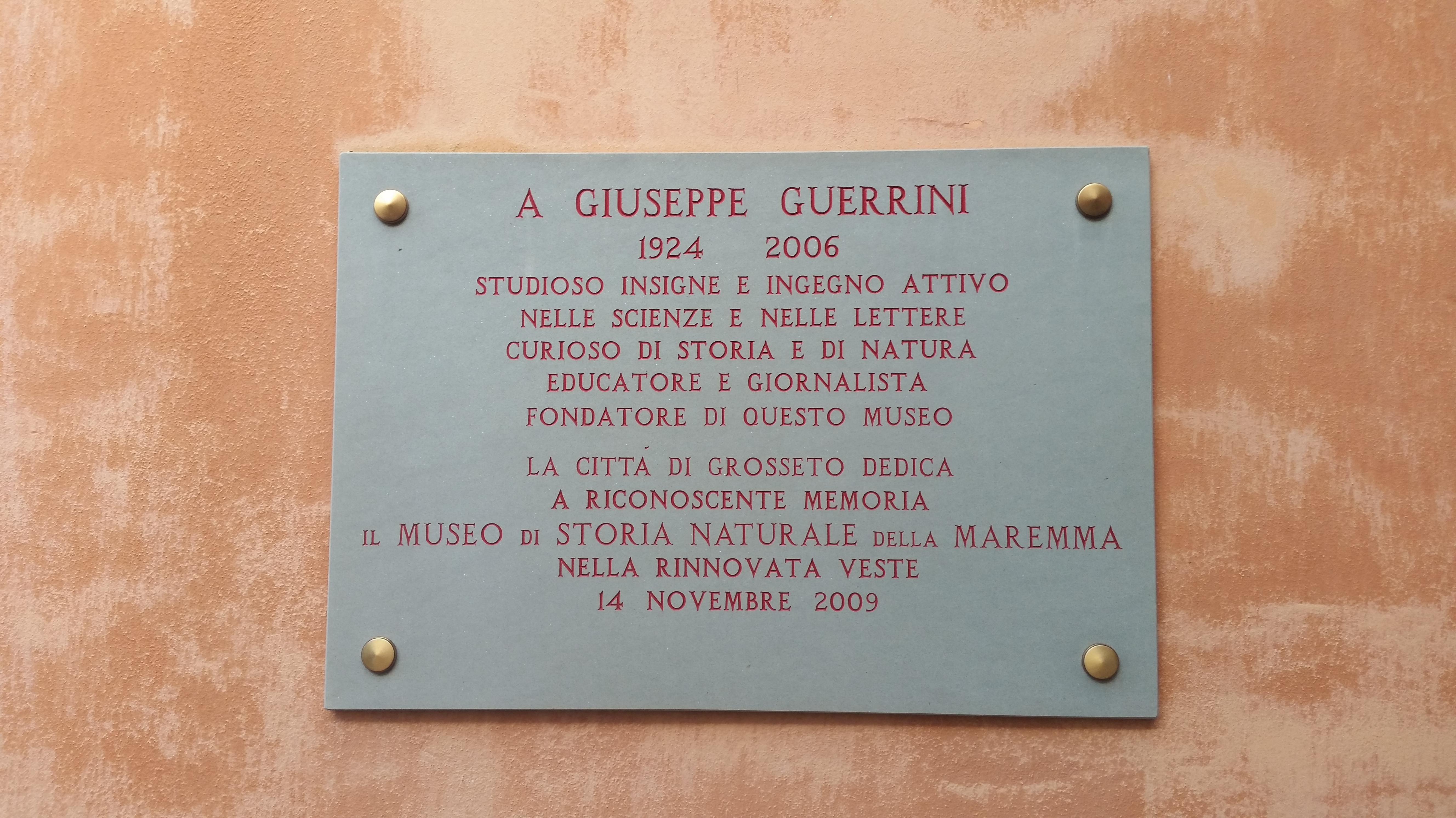 Giuseppe Guerrini (Grosseto)